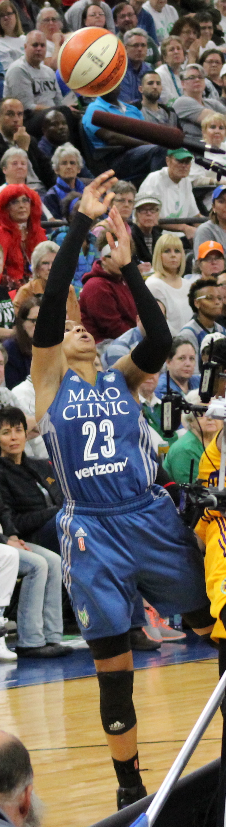 Maya Moore of the Minnesota Lynx